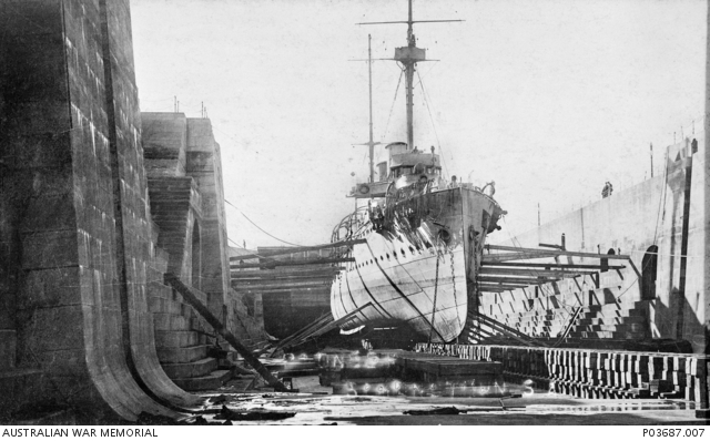 The light cruiser HMAS Pioneer in the Selbourne dry dock at Simonstown, South Africa. During 1915 and 1916 Pioneer remained off German East Africa, now Tanzania (ex Tanganyika), to blokade any attempts by Germany to resupply its forces ashore. She had earlier taken part in the successul operation to search out and destroy the Germany cruiser SMS Koenigsberg which had sought refuge up the Rufigi (Rufiji) River. HMAS Pioneer returned to Australia in October 1916, was paid off and ultimately scuttled off Sydney Heads in 1931.